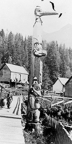 Totem Pole from the Tlingit, à Ketchikan, in Alaska Panhandle